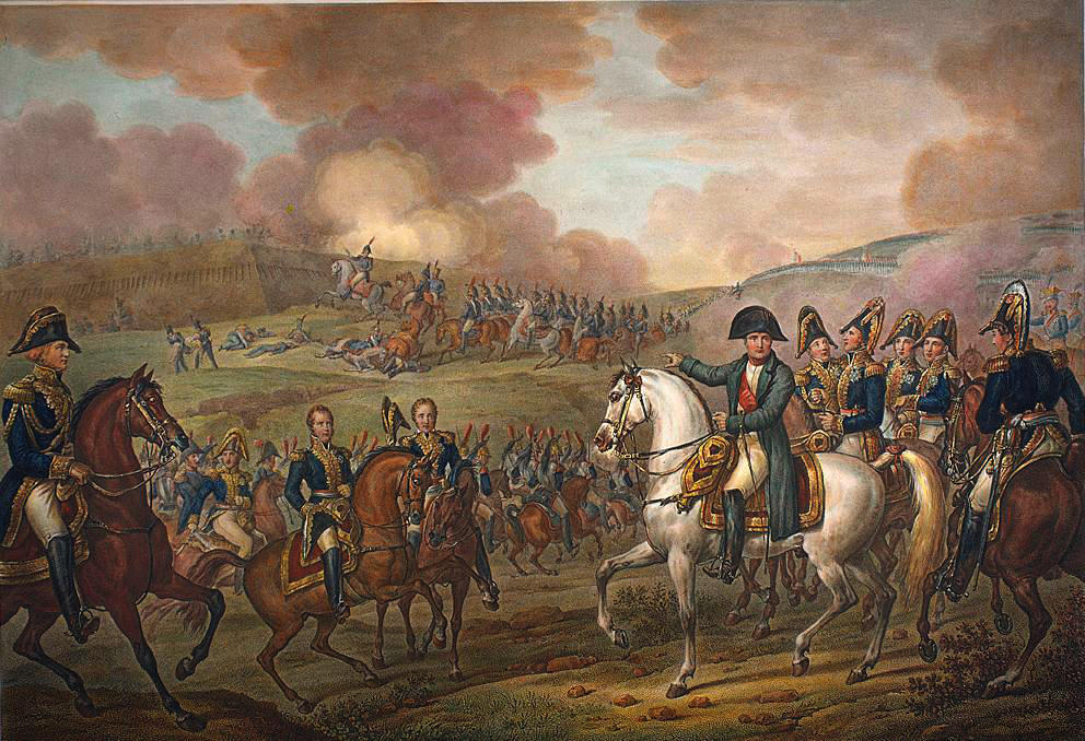 Napoleon in the Battle of Moskowa in 1812. Three generals arriving from the left to announce the news to Napoleon, who is pointing. Engraving and stipple, hand-coloured, Pennington Catalogue, p. 1269